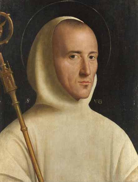 Saint Hugh of Grenoble, by an anonymous painter, at London National Gallery